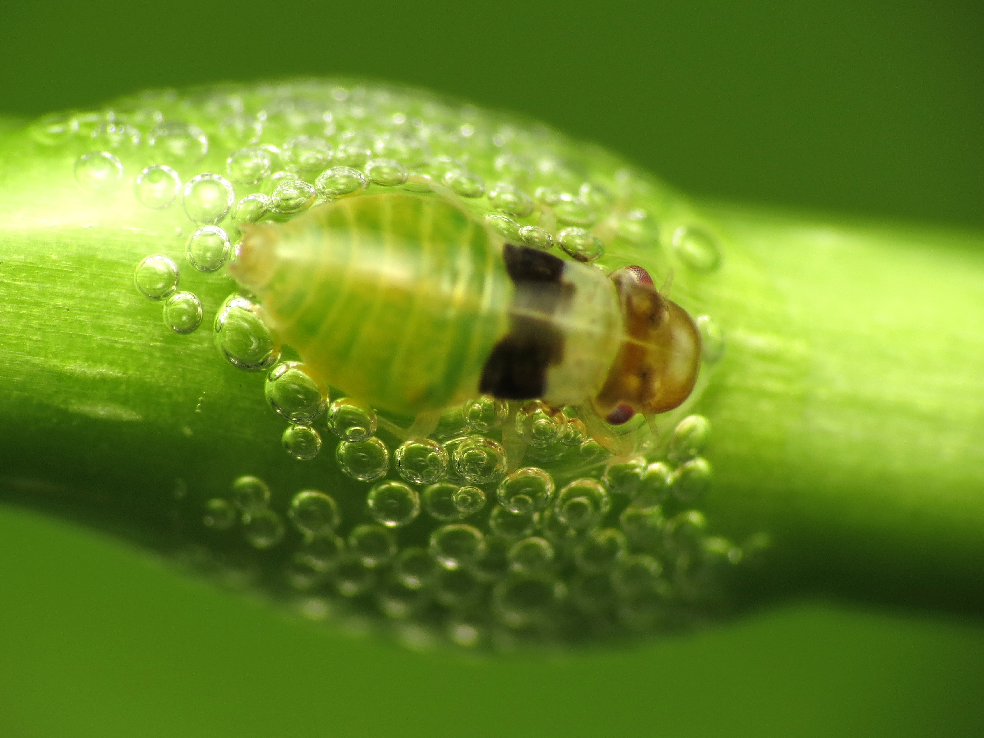 Cercopidae sp. Rock Creek Park, Washington, DC, USA.